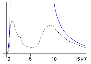 Blackbody radiation in comparison to gas mantle based on CeO2/ThO2. Source of data: R.W. Pohl: Optik und Atomphysik Own drawing. No claim for rights.